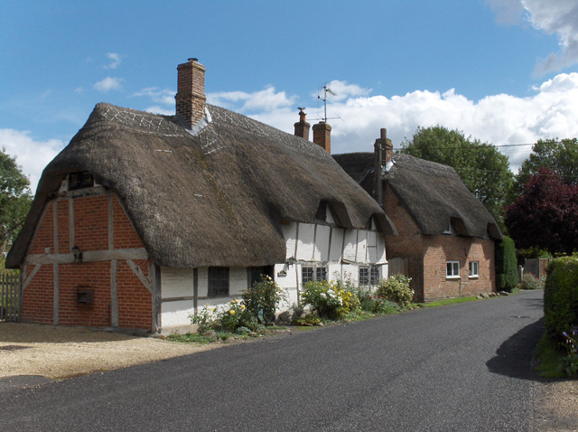 East Garston, Berkshire: cottages on Front Street.